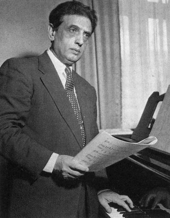 Photograph of the Finnish conductor, composer and musicologist Simon Parmet (1897–1969).